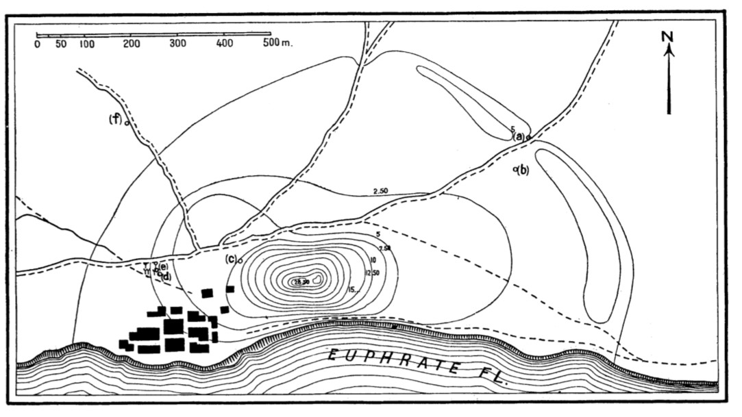 Plan of Til-Barsip